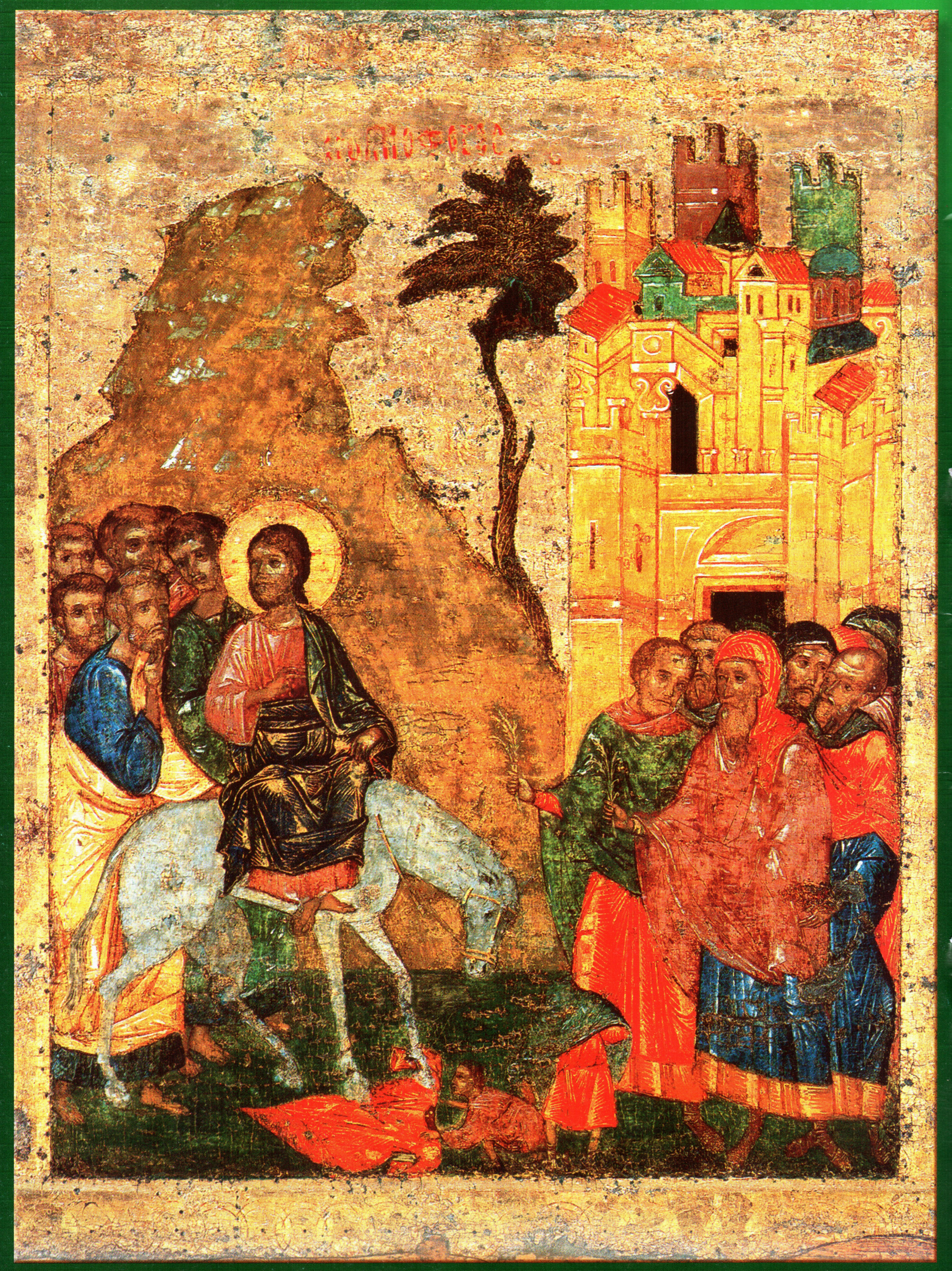 Entry into Jerusalem. Russian icon 14 c. Вход Господень в Иерусалим. Русская икона.